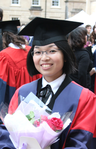 at the Oxford graduation ceremony